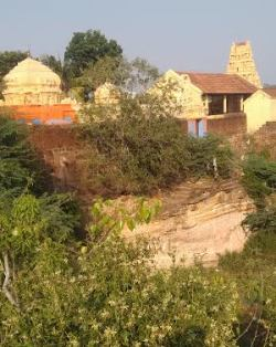 Vallam vajjiresvarar temple வல்லம் வஜ்ஜிரேசுவரர் கோயில்